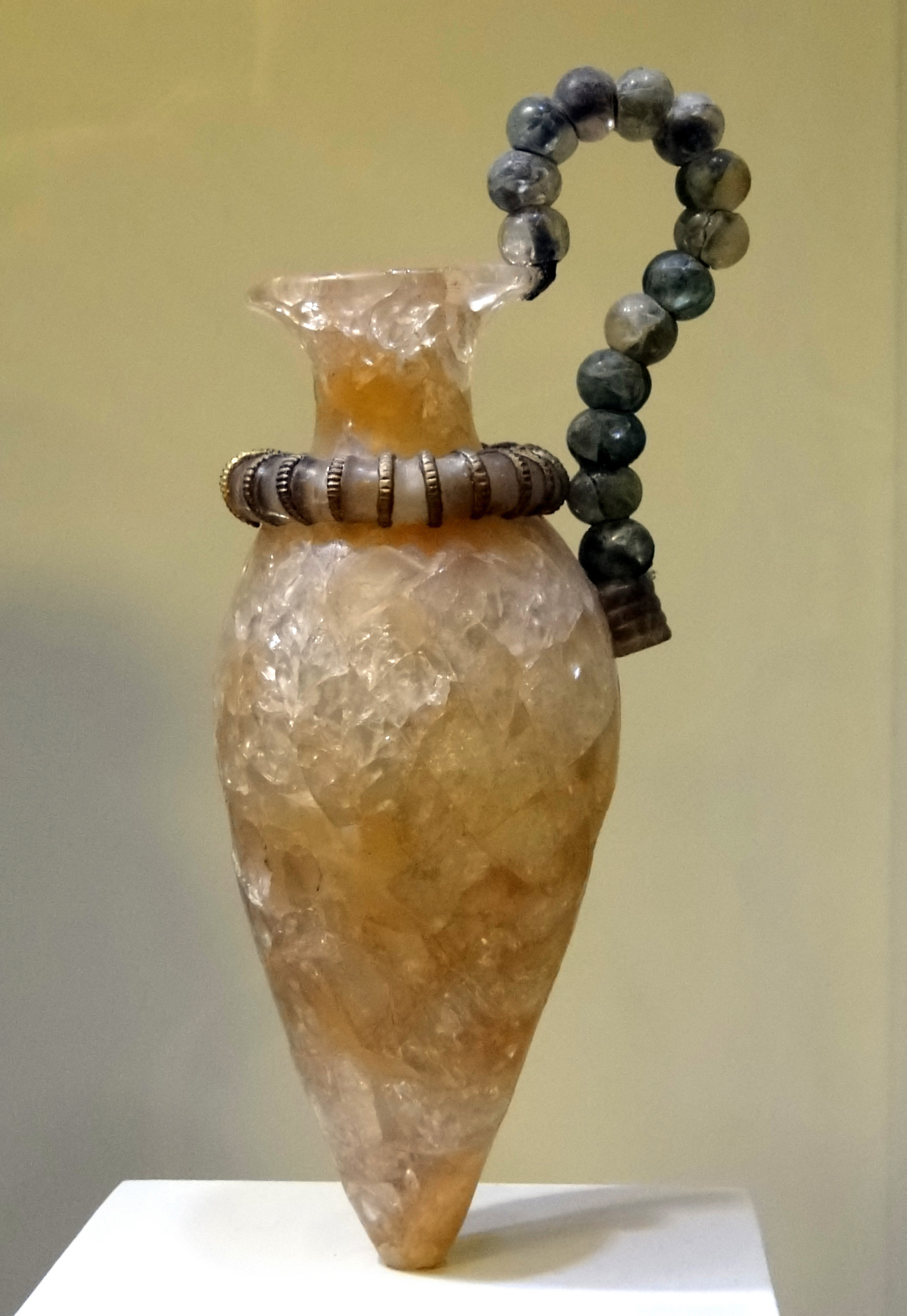 Libation vase (rhyton) of rock crystal with gilded ivory discs on the neck ring. Zakros, New-Palace period (1500-1450 BC). Heraklion Archaeological Museum, Crete, Greece